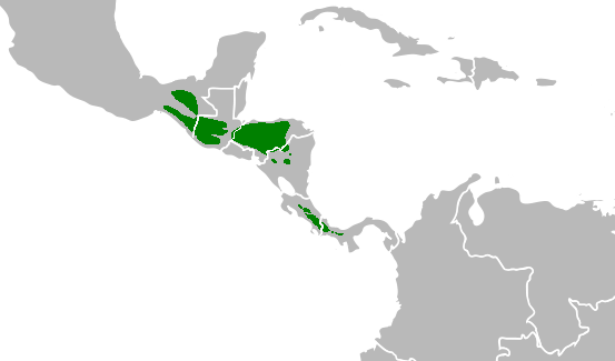 Range of Pharomachrus mocinno